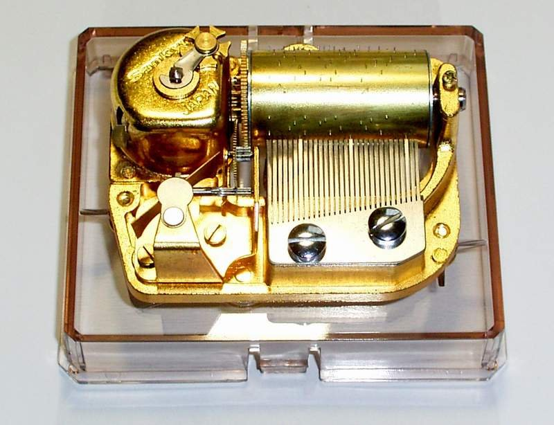 photo by rainbow, oricoh camera